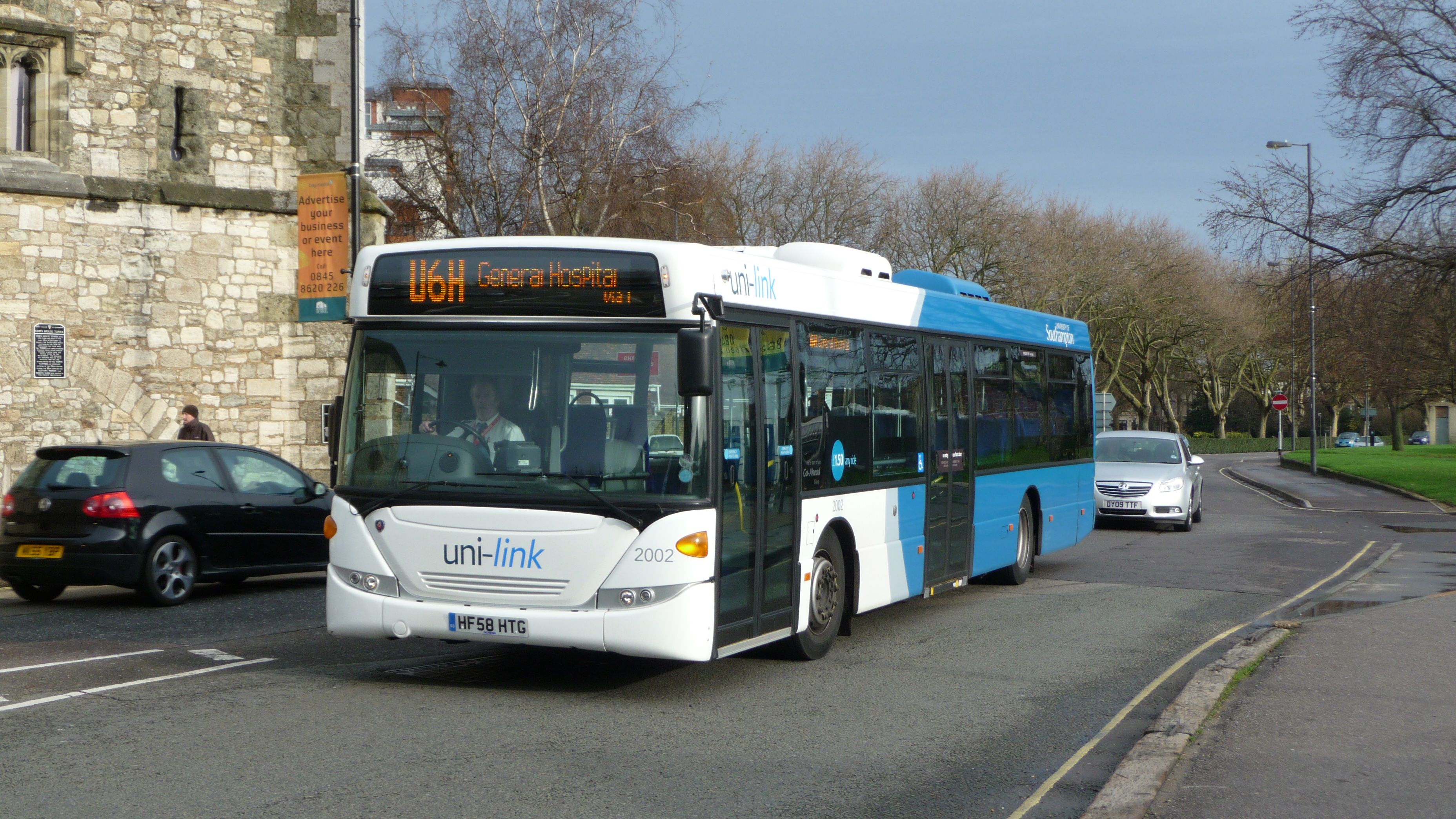 Bluestar 2002 (HF58 HTG), a Scania OmniCity CN230UB 4x2 EB (built 2008), on Town Quay, Southampton, on route U6H.